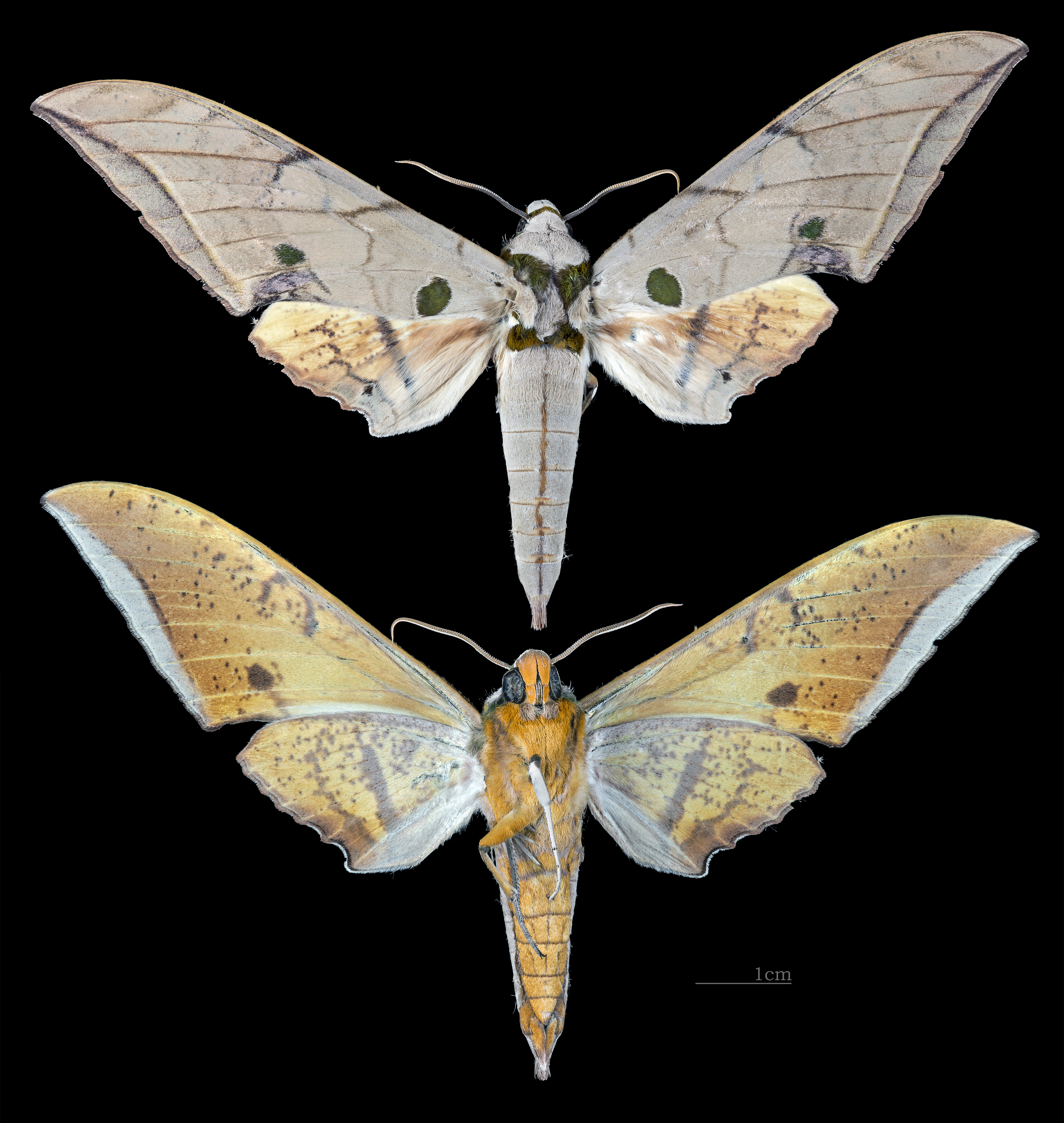 Violet gliding hawkmoth - Two views of same specimen Collection of the Mathematician Laurent Schwartz